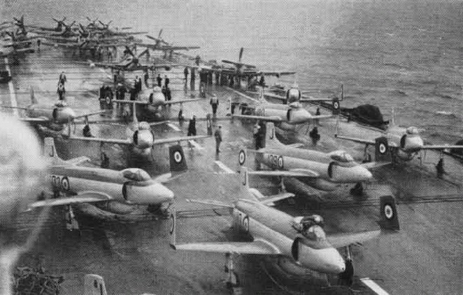 Flight deck view of the British Royal Navy aircraft carrier HMS Eagle (R05) in 1952/53. Next to the island Supermarine Attacker FB.2 fighters of No. 800 and No. 803 squadrons are visible, which were the first operational jet fighters of the Royal Navy. Farther aft are Fairey Firefly FR.4s of No. 812 and No. 814 Sqn., while Blackburn Firebrand TF.4 of No. 827 Sqn. are parked on the edge of the flight deck aft.